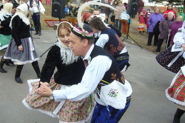 Carnival "Fašank" of Březová (Uherské Hradiště distrikt, Czech rep.)